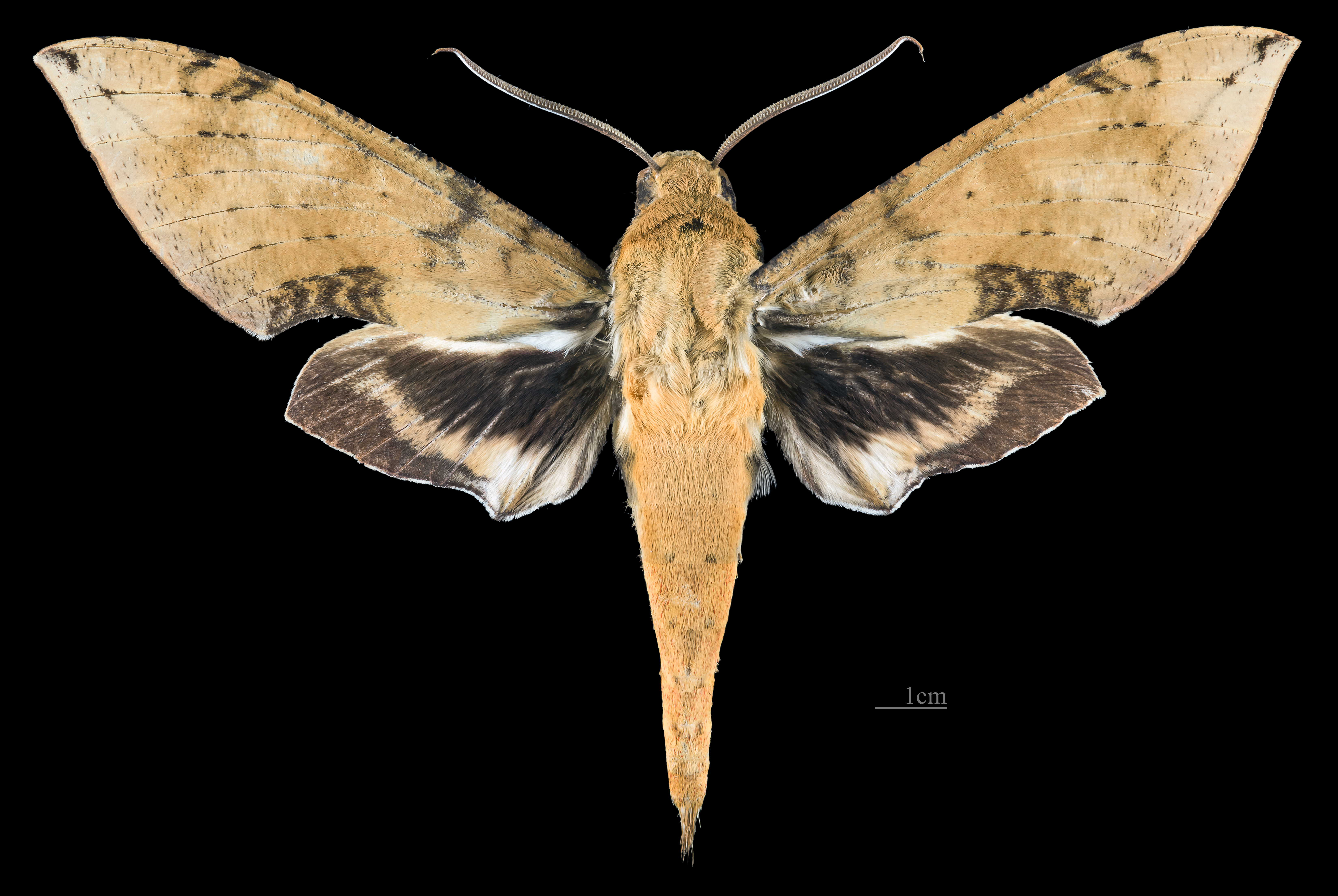 Cechenena aegrota - Dorsal side Collection of the Mathematician Laurent Schwartz